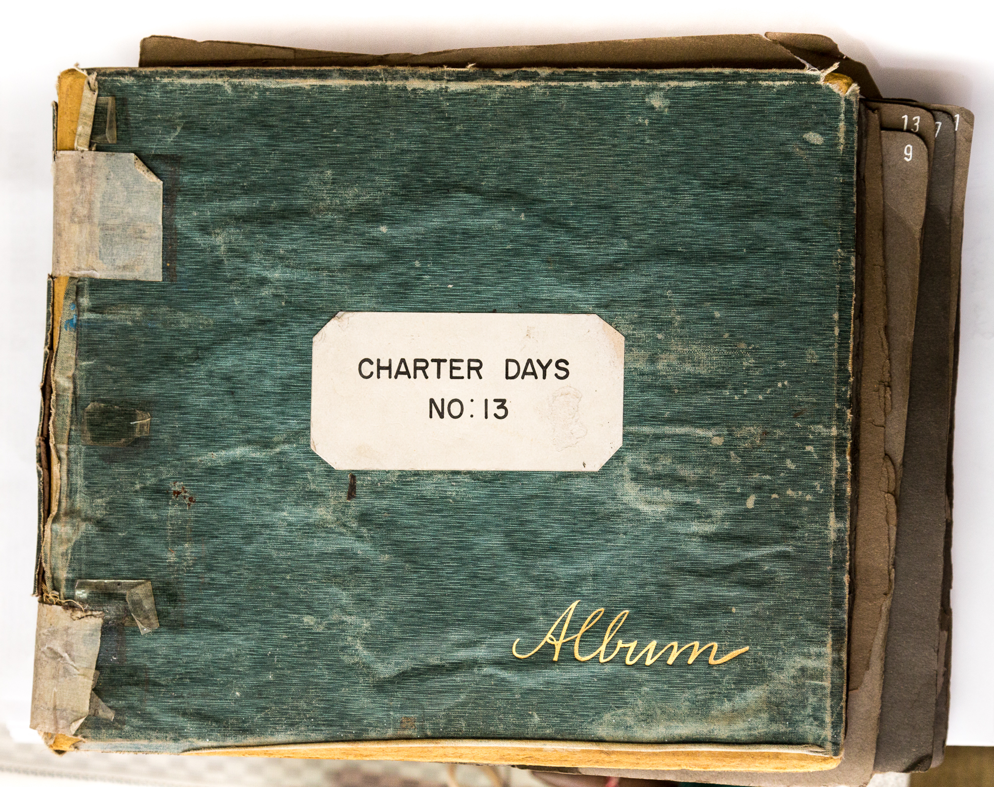 Album No. 13 in the series of 17 photoalbums of G.C. Woolley. Photo of the original photoalbum which is in possession of Sabah Museum, Kota Kinabalu. Permit to take photo courtesy of Sabah Museum.